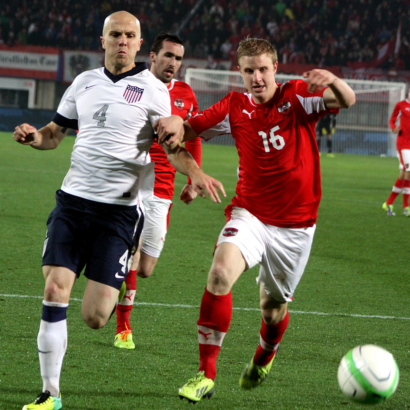 Friendly-match Austria vs. USA (1:0) in the Ernst-Happel-Stadion in Vienna at 2013-03-22. – The photo shows Michael Bradley (USA, left) und Martin Hinteregger (Austria, right).